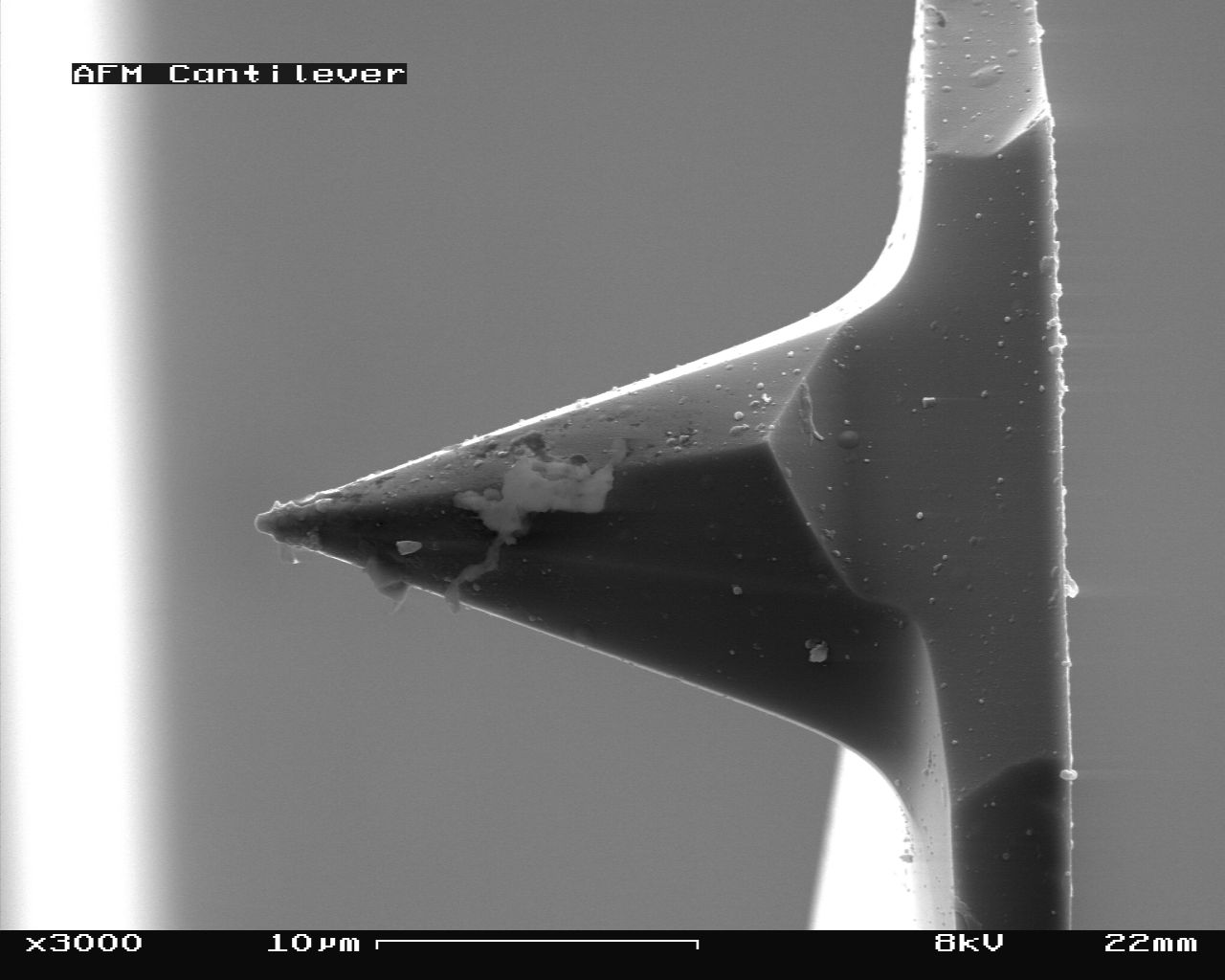 AFM (used) cantilever in Scanning Electron Microscope, magnification 3000x